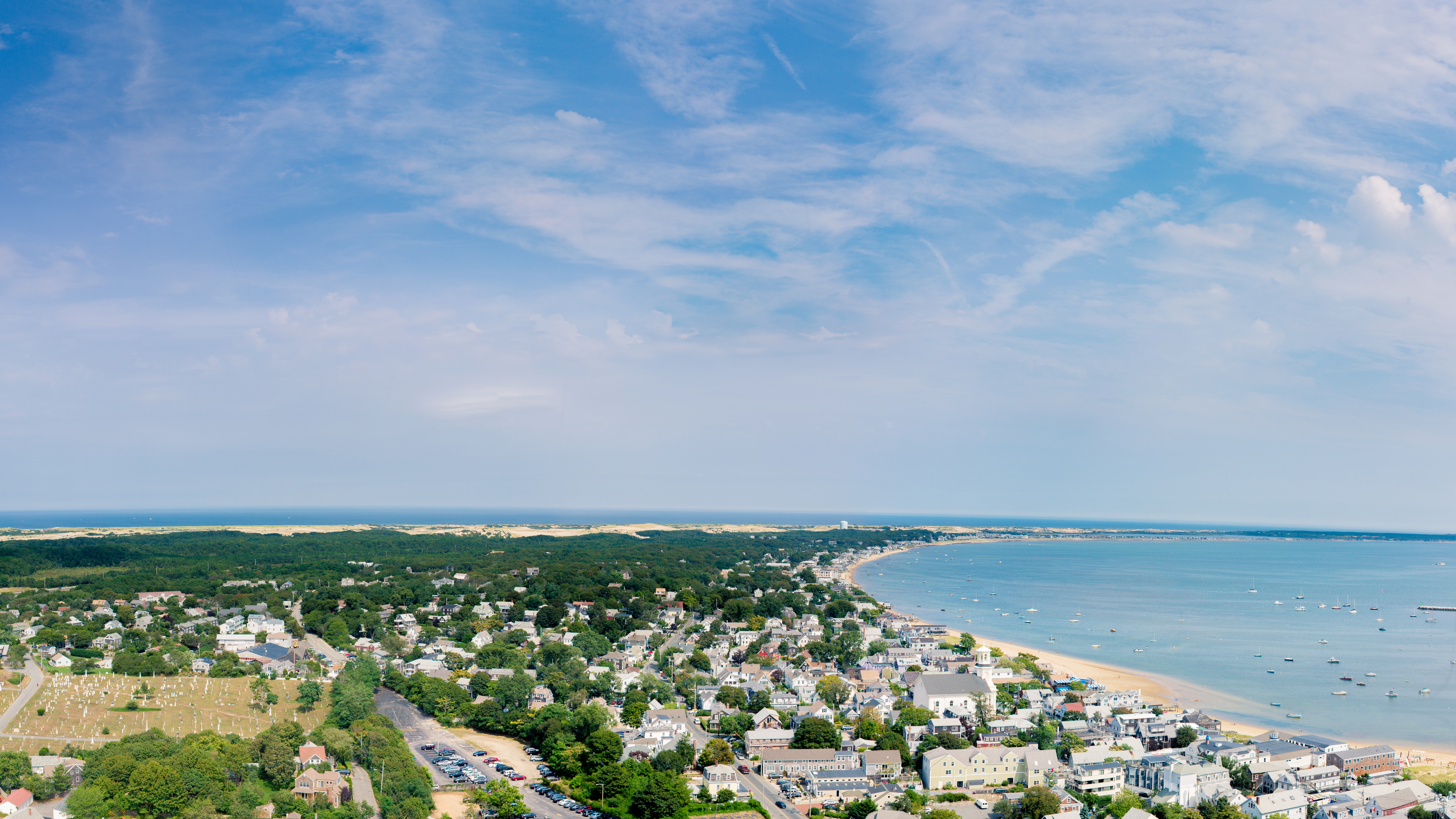 View of Provincetown from Pilgrim Monument looking east, MA, USA - Sept, 2013